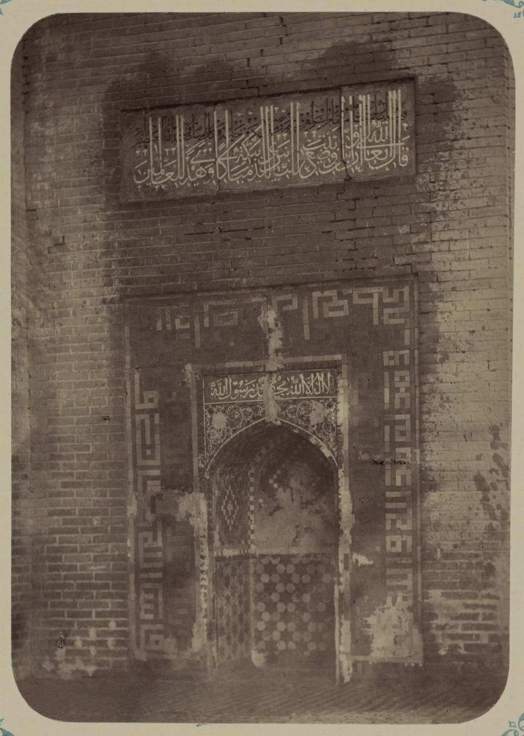 This photograph of the mausoleum at the Khodzha Abdu-Berun memorial complex in Samarkand (Uzbekistan) is from the archeological part of Turkestan Album. The six-volume photographic survey was produced in 1871-72 under the patronage of General Konstantin P. von Kaufman, the first governor-general (1867-82) of Turkestan, as the Russian Empire’s Central Asian territories were called. The album devotes special attention to Samarkand’s Islamic architectural heritage. The Khodzha Abdu-Berun memorial complex (khanaka) was dedicated to a revered 9th-century Arab judge of the Abdi clan, with the word berun (outer) added to signify its location adjacent to a cemetery on the outskirts of Samarkand, and to distinguish it from another complex commemorating the sage that was located within the city. The khanaka mosque was built in the first half of the 17th century by Nadir Divan-Begi, vizier to the Bukharan ruler Imam-Quli Khan. Shown here is the qibla wall with the mihrab, a prayer niche indicating the qibla, the direction of Mecca. The mihrab niche is surfaced with ceramic tiles. Above the ceramic decoration around its pointed arch is a sacred inscription in cursive script. The mihrab is framed by an inscription band in block Kufic letters. At the top is another inscription in elongated cursive (Thuluth) Perso-Arabic script. Architectural decorations and ornaments; Doors and doorways; Inscriptions; Islamic architecture; Mosques; Niches; Photographic surveys